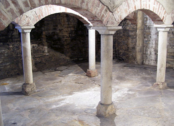 The cellar of the Red House in Monschau near Aachen. It was used to wash and dy the wool. Keller des Roten Hauses in Monschau. Hier wurde die Wolle gewaschen und gefärbt.